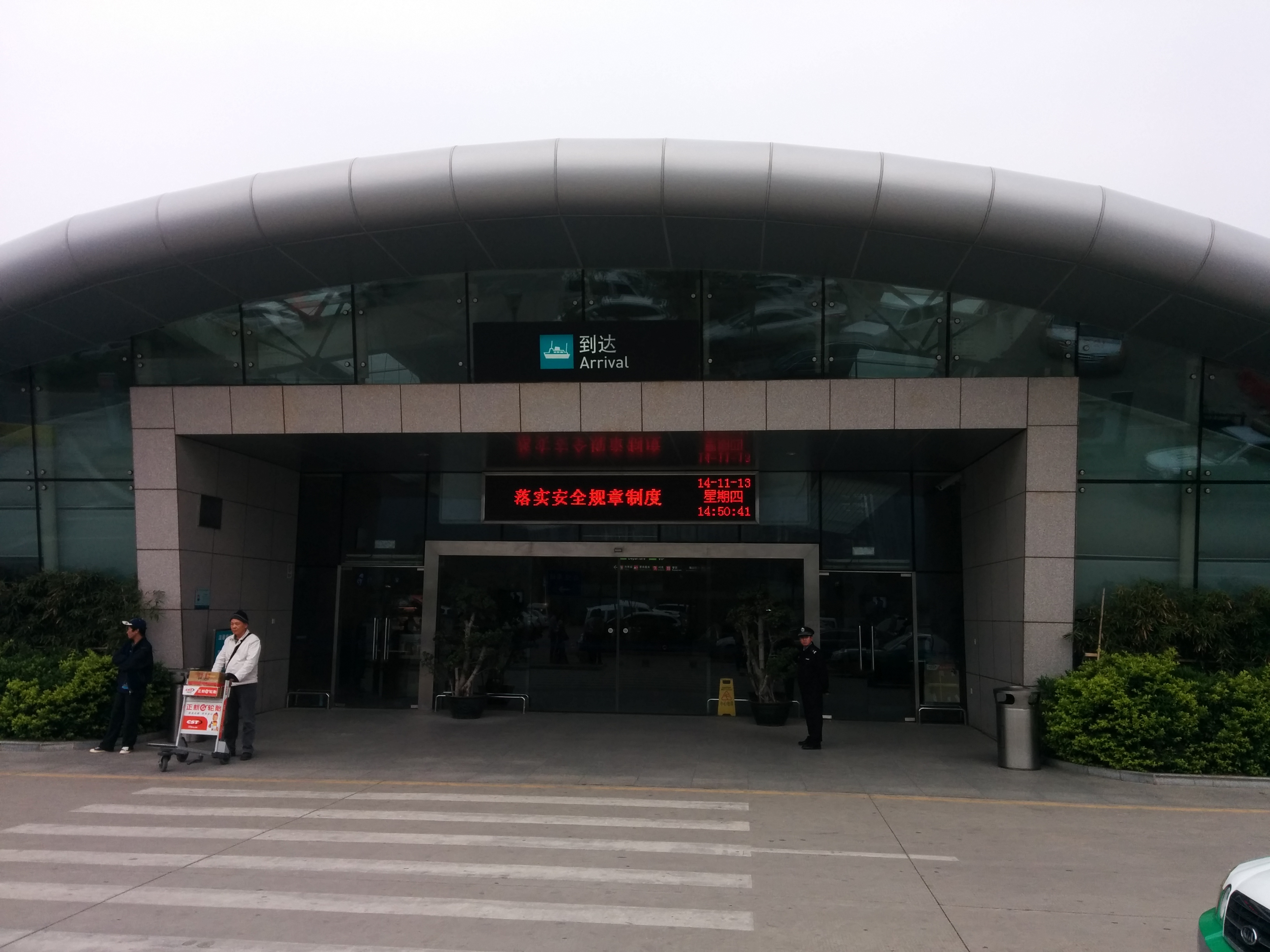 The exit for passengers arriving from the Taiwanese island of Kinmen to the east side of the Fujian city of Xiamen.